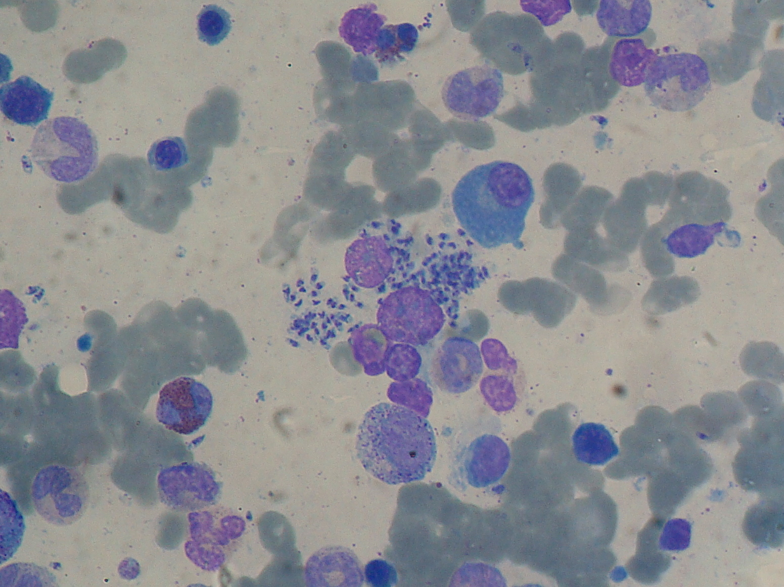 Bone marrow aspiration: Leishmaniasis (Leishmania sp.) in liver transplant recipient.